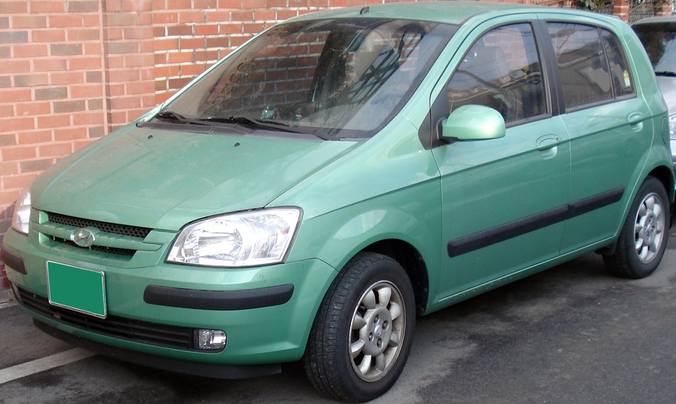 Hyundai Click